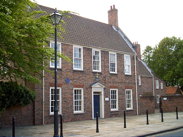 The Master's House. The Master's House on Charterhouse Lane in Hull.